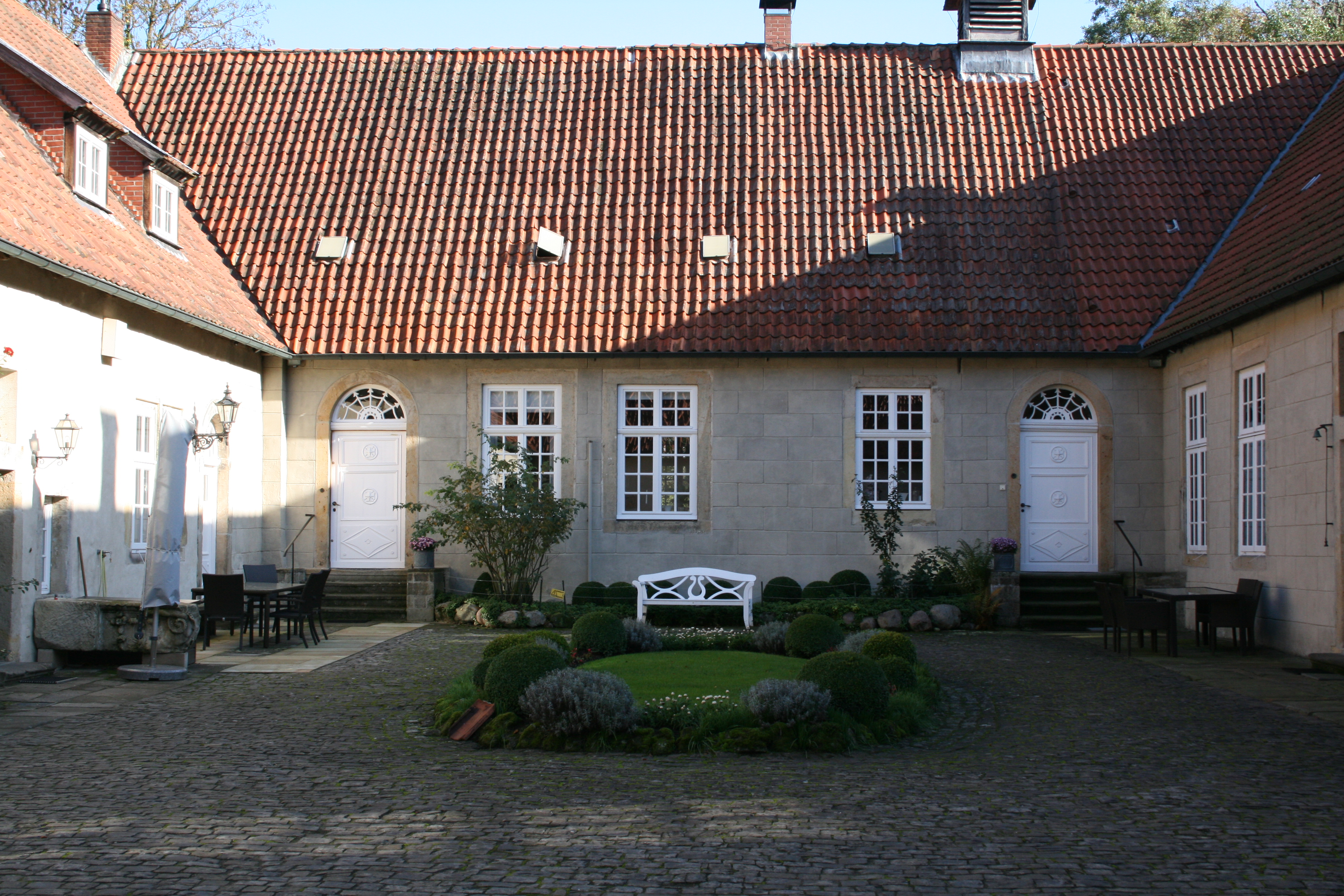 Courtyard of Haus Marck Tecklenburg